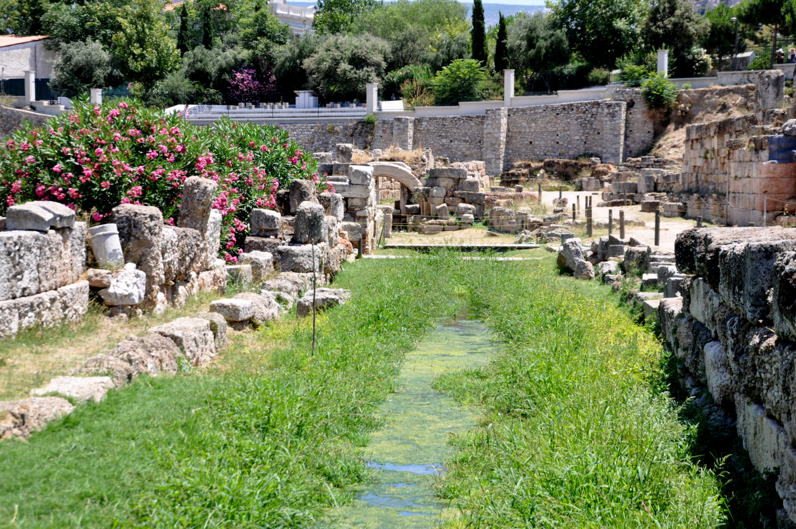 Remaining of the Eridanos river, at Kerameikos nekropolis